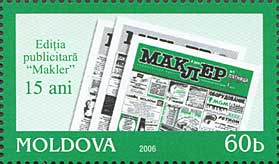 Stamp of Moldova